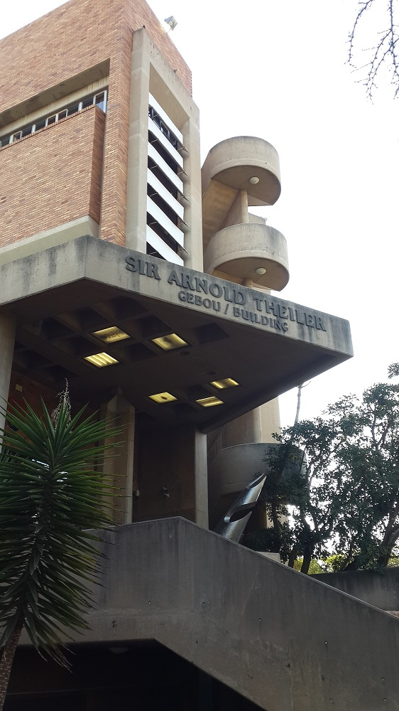 Photo of the Arnold Theiler Building at the Faculty of Veterinary Science in Onderstepoort.